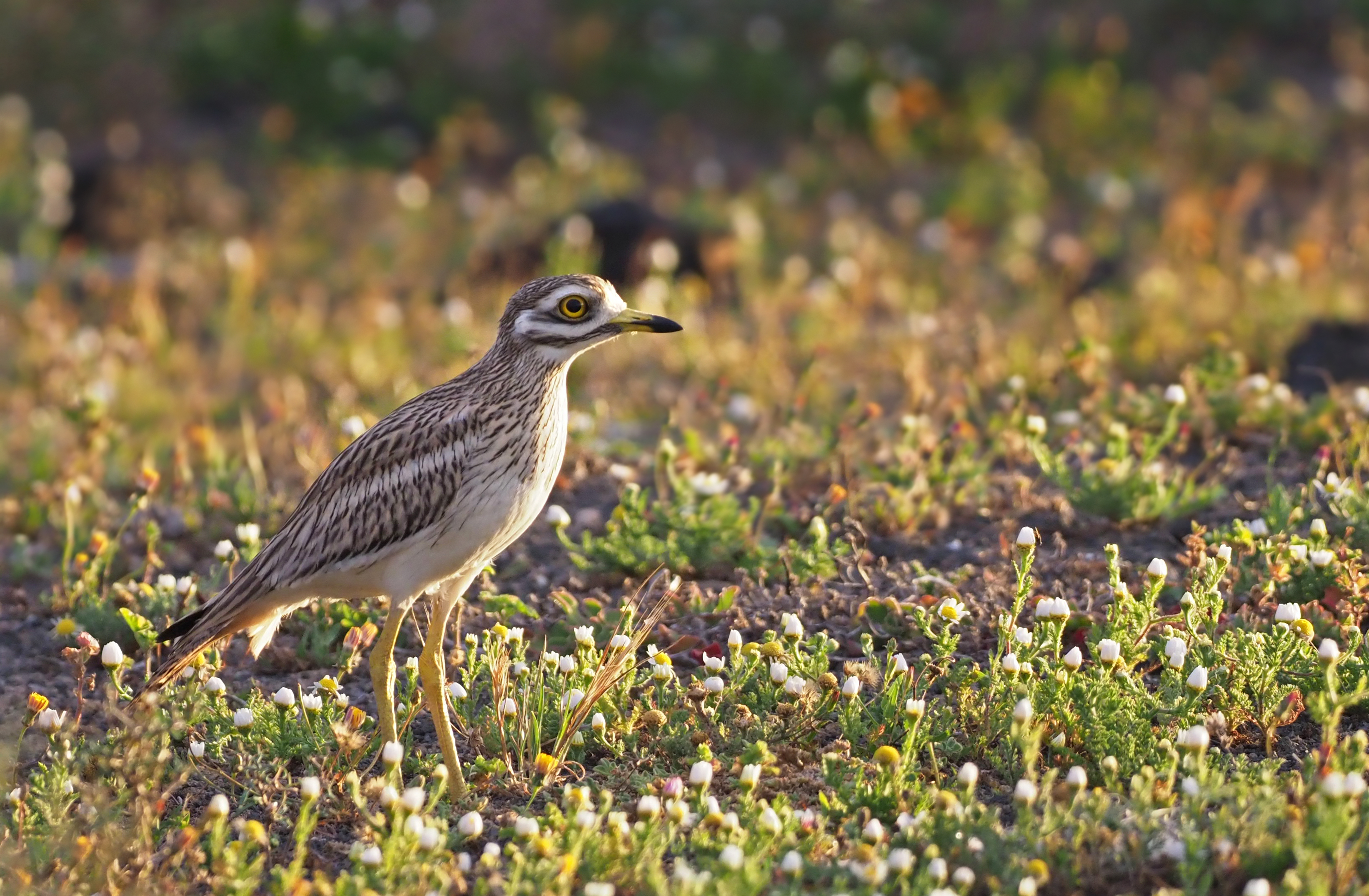 Eurasian stone-curlew (Burhinus oedicnemus), "El Jable" plains, Lanzarote